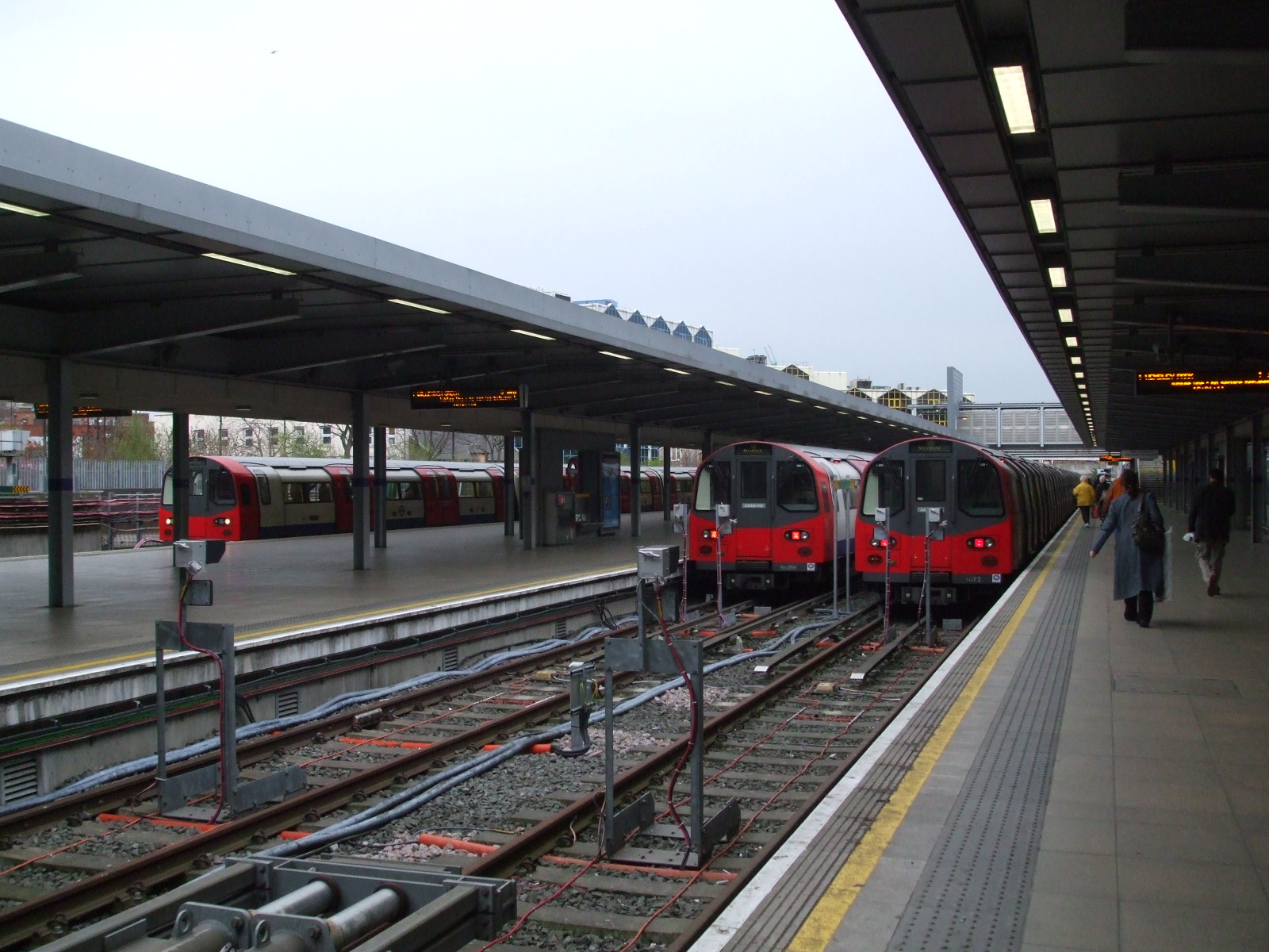 Stratford station Jubilee line platforms 13 to 15